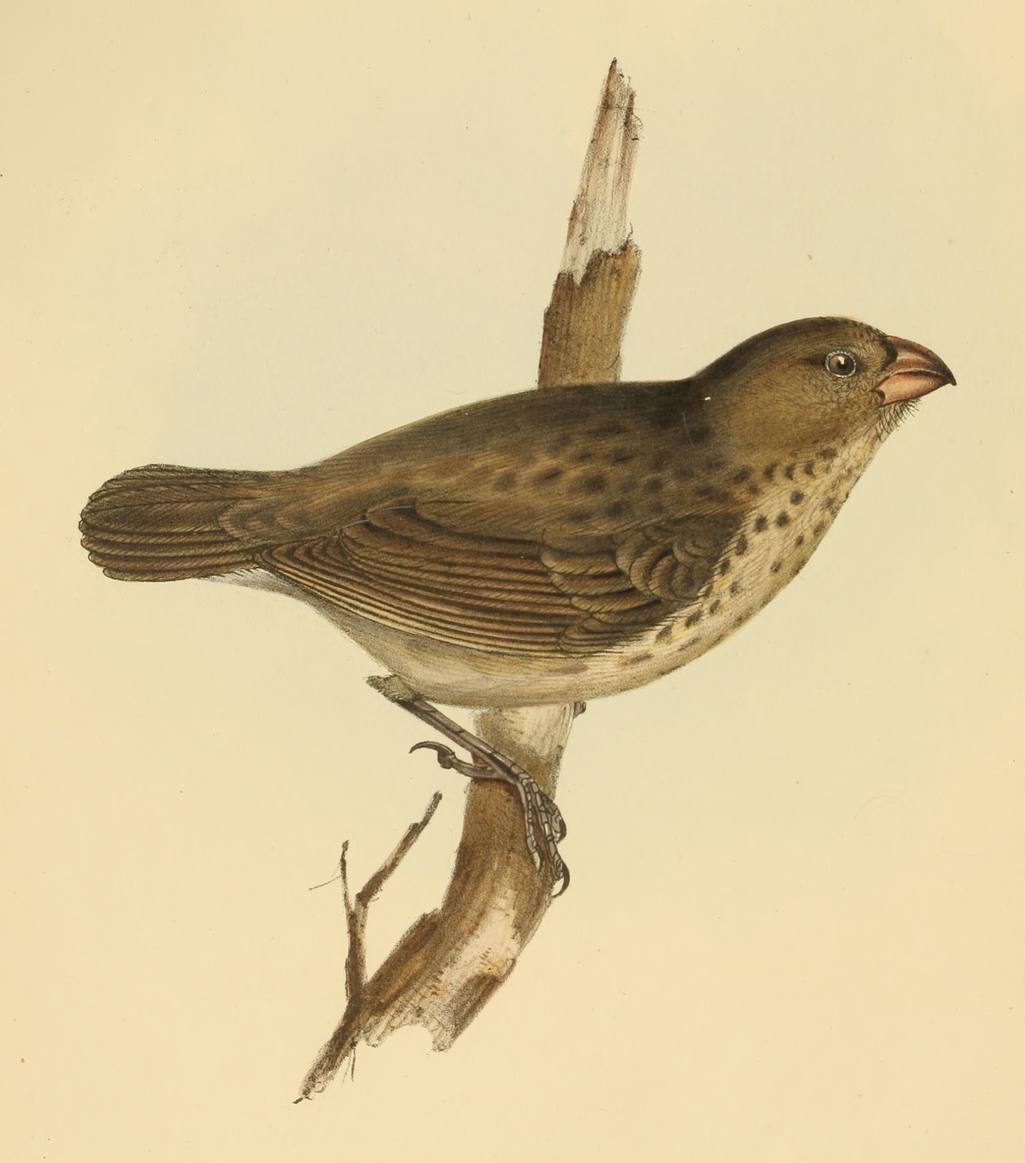 Camarhynchus crassirostris